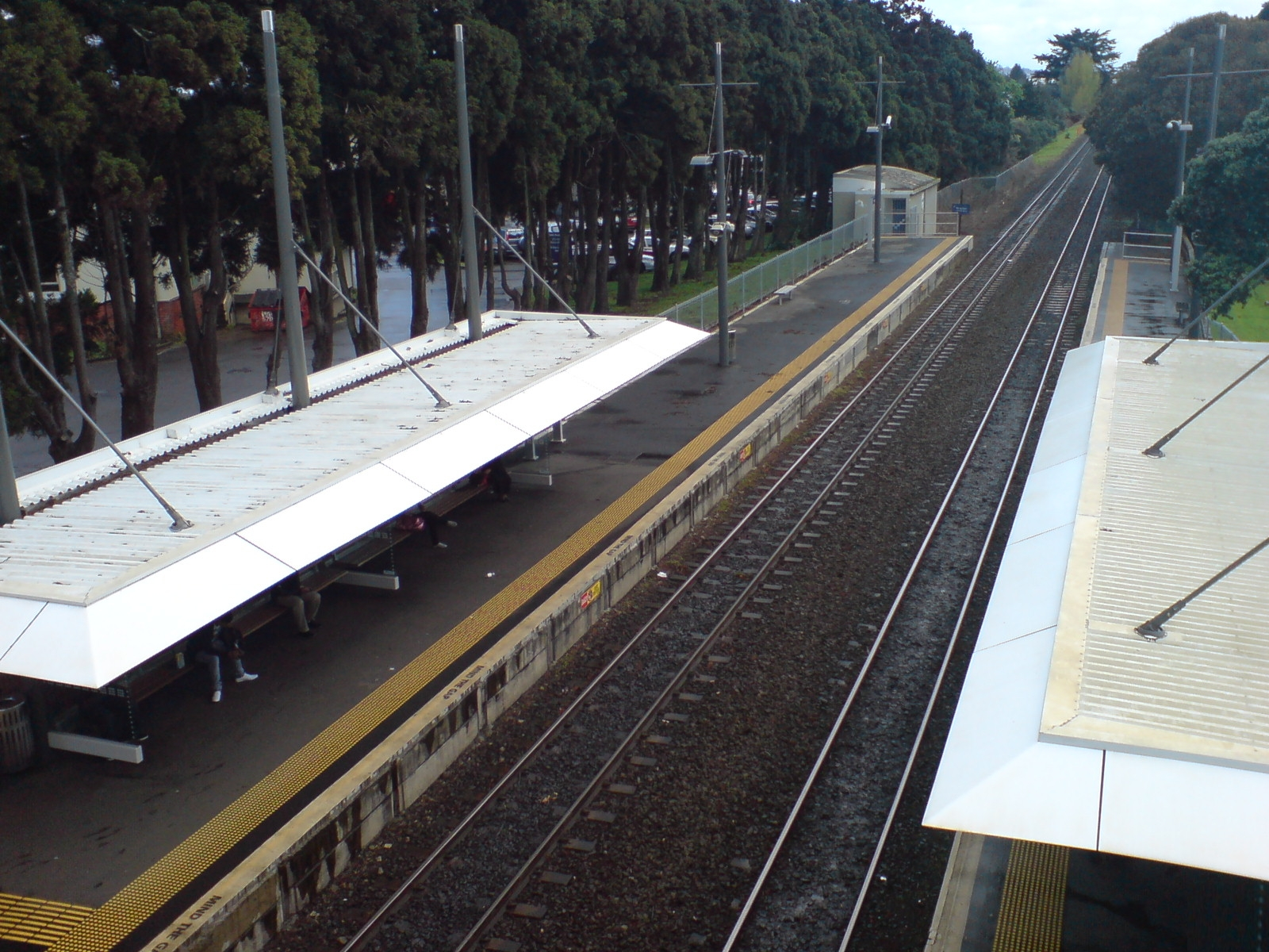 Looking northwest at the Middlemore Train Station in Auckland, New Zealand.